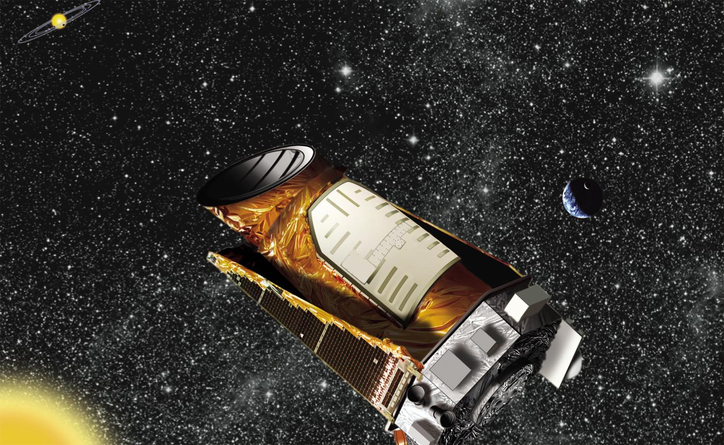 Artist's concept of the Kepler spacecraft.